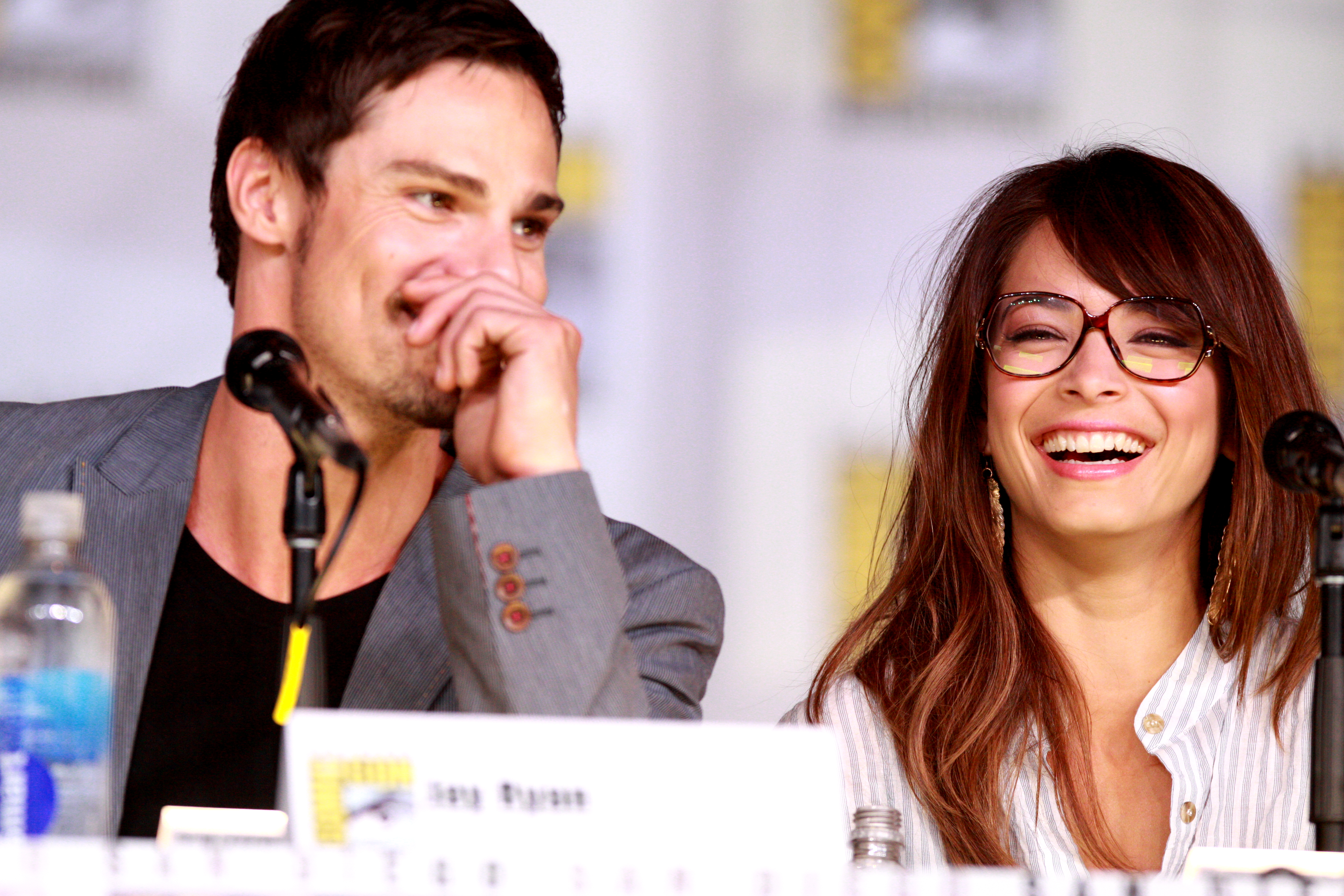 Jay Ryan and Kristin Kreuk speaking at the 2013 San Diego Comic Con International, for "Beauty and the Beast", at the San Diego Convention Center in San Diego, California.